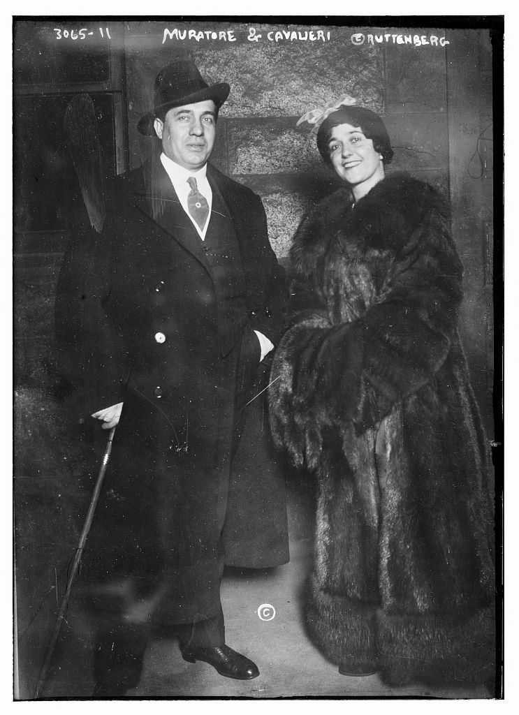 Lucien Muratore and Lina Cavalieri circa 1915. Image by Joseph Ruttenberg and licensed to Bain. Bain News Service,, publisher. Muratore and Cavalieri [between ca. 1910 and ca. 1915] 1 negative : glass ; 5 x 7 in. or smaller. Notes: Title from unverified data provided by the Bain News Service on the negatives or caption cards. Forms part of: George Grantham Bain Collection (Library of Congress). Format: Glass negatives. Repository: Library of Congress, Prints and Photographs Division, Washington, D.C. 20540 USA, General information about the Bain Collection is available at Persistent URL: Call Number: LC-B2- 3065-11